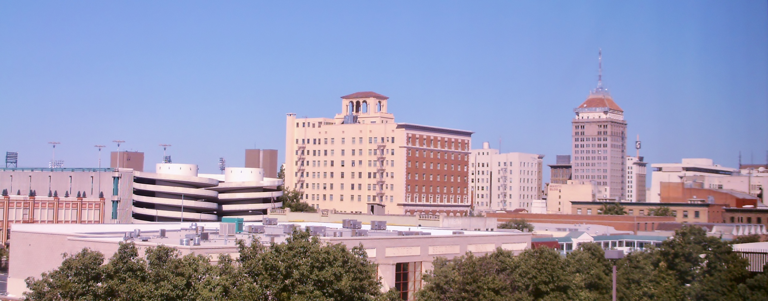 downtown